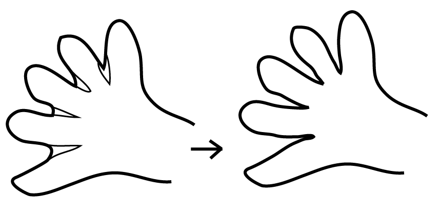 Standard Event System character depiction